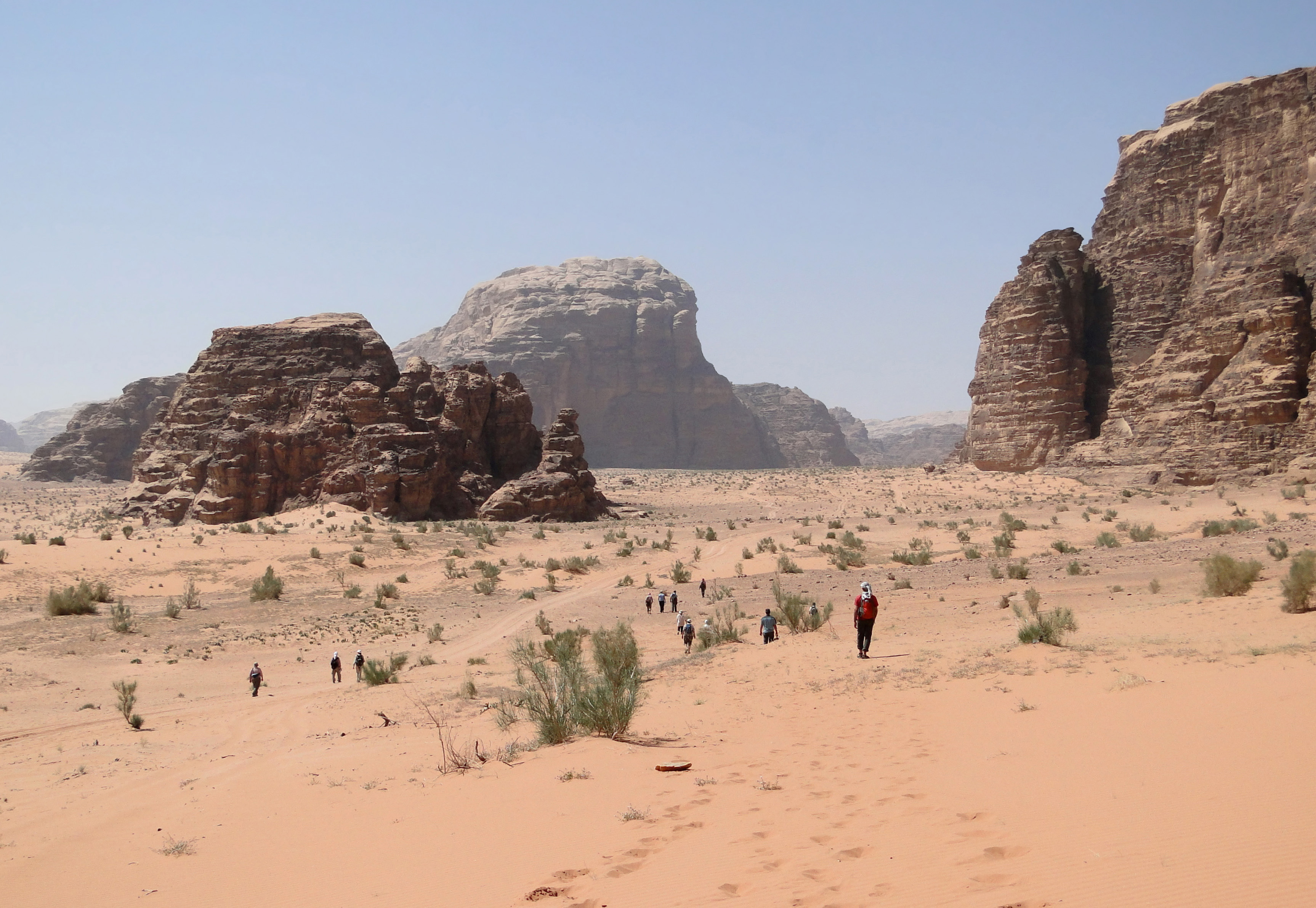 People in the Wadi Rum, Jordan